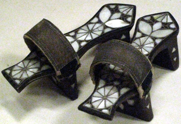 Ancient turkish shoes for bathes.